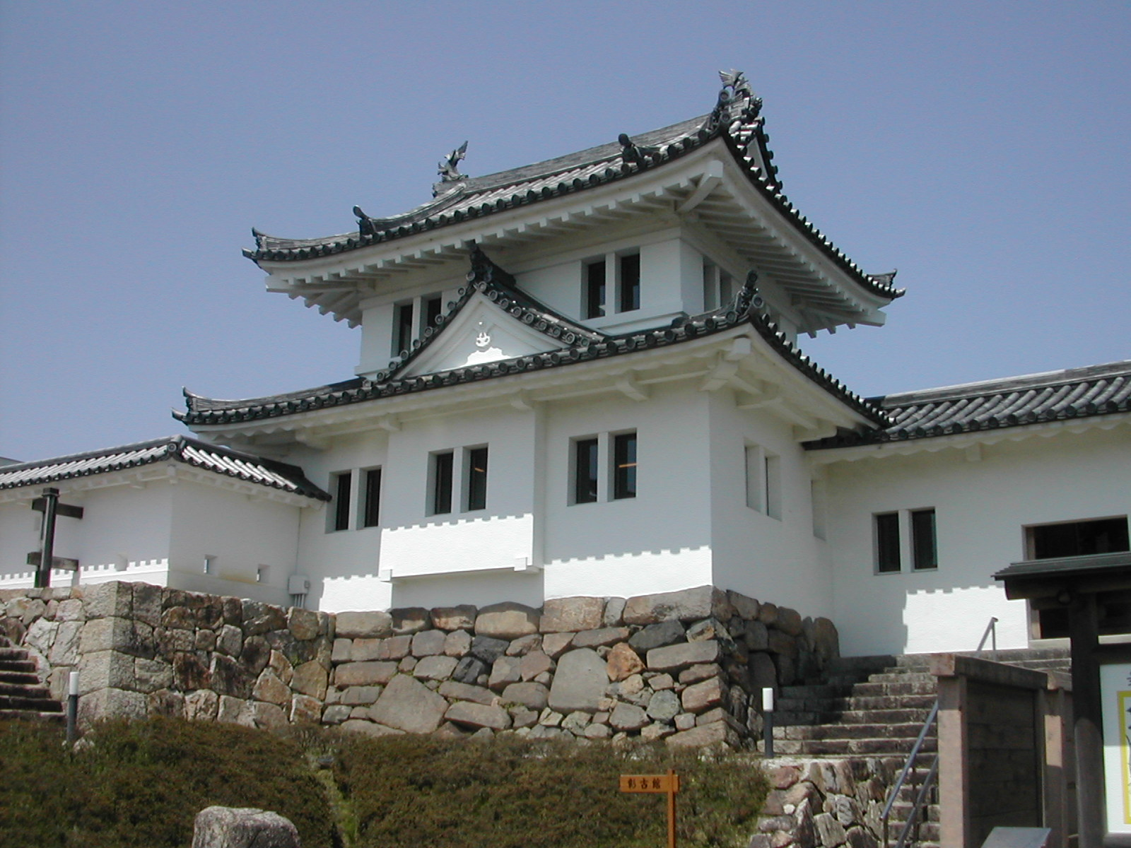 Maizuru Castle photo by Sea of Japan